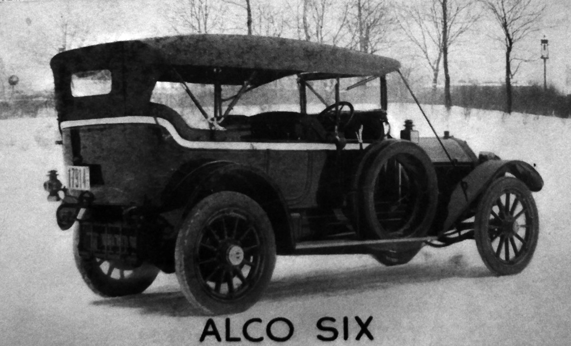 Postcard photo of what looks to be an advertising card for Alco made autos. This is the Alco Six, a touring car.